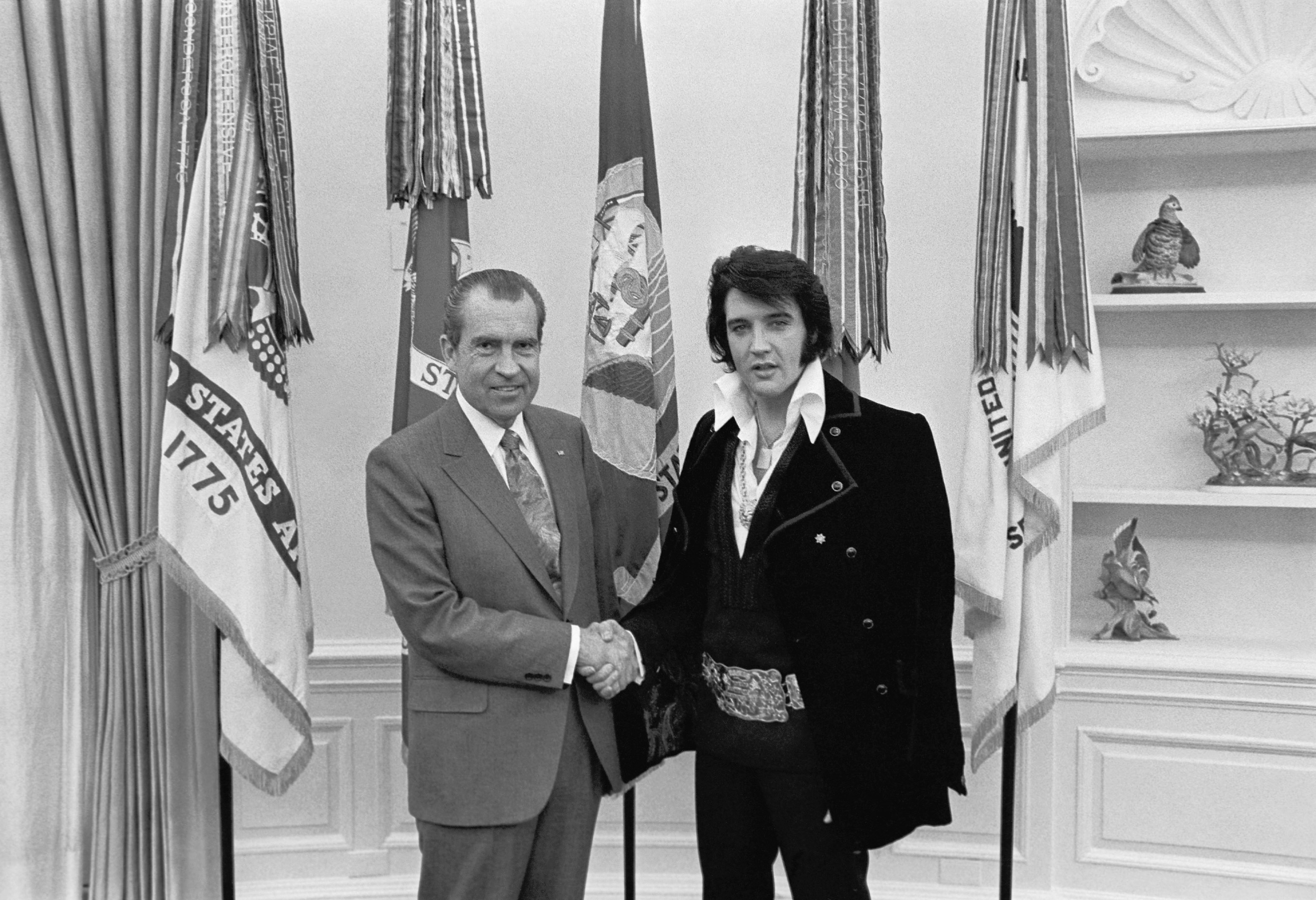 From: Series: Master Print File, compiled 1969-1974 (Collection RN-WHPO) Created by: President (1969-1974 : Nixon). White House Photo Office. (1969 - 1974) Production Date: 12/21/1970 Persistent URL: Repository: National Archives at College Park - Archives II (College Park, MD) Access Restrictions: Unrestricted Use Restrictions: Unrestricted